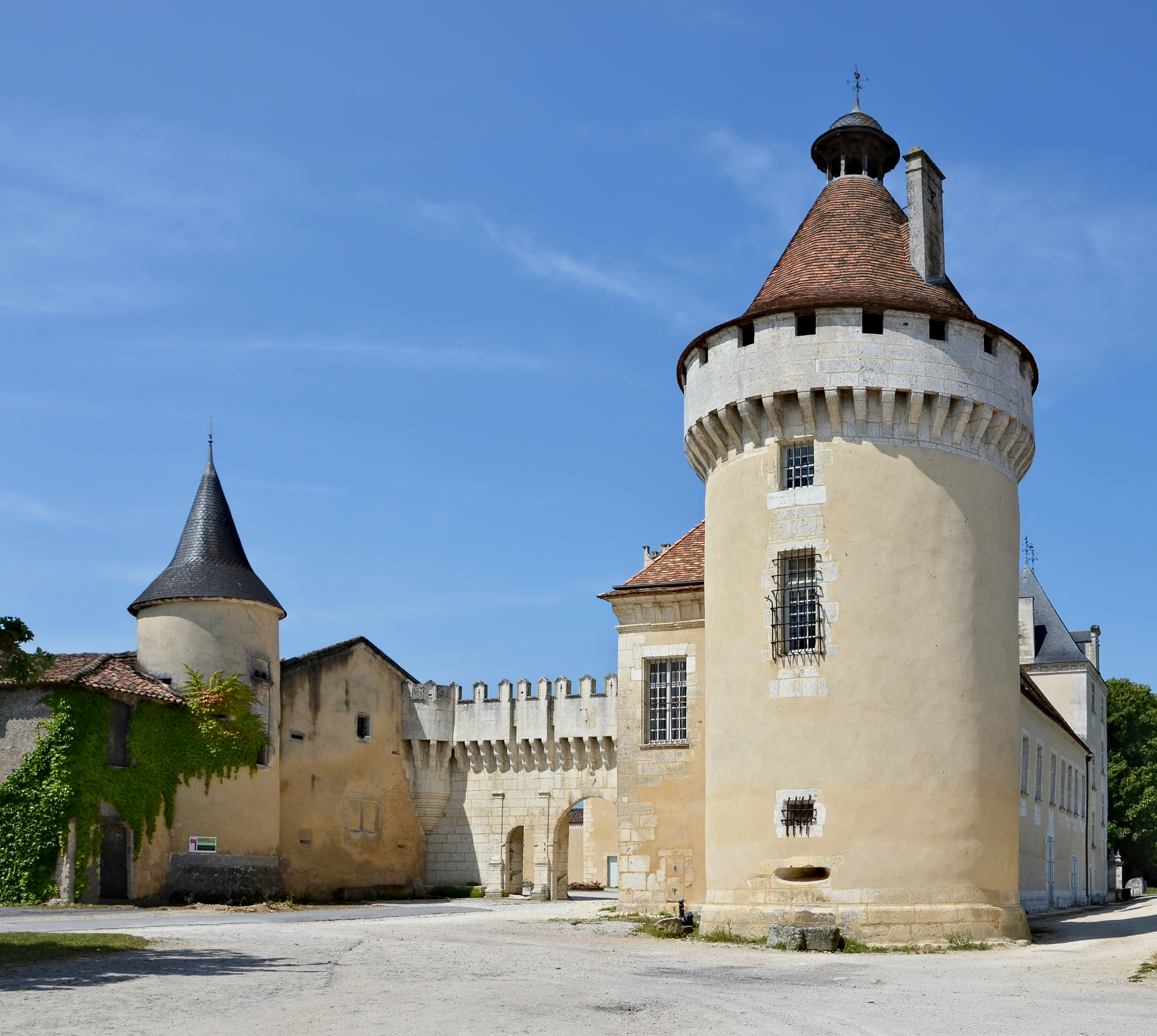 Château de l'Oisellerie (15th and 16th centuries) : exterior view , La Couronne, Charente, France. . Château de l'Oisellerie